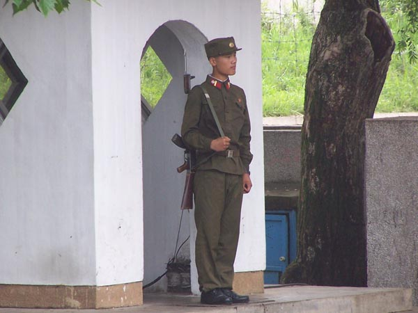 A North Korean soldier standing guard on the road to the Joint Security Area at the Korean Demilitarized Zone. North Korean side.